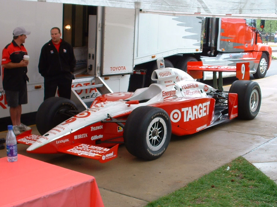 Target sponsored IndyCar visiting Purdue University on Toyota Day.